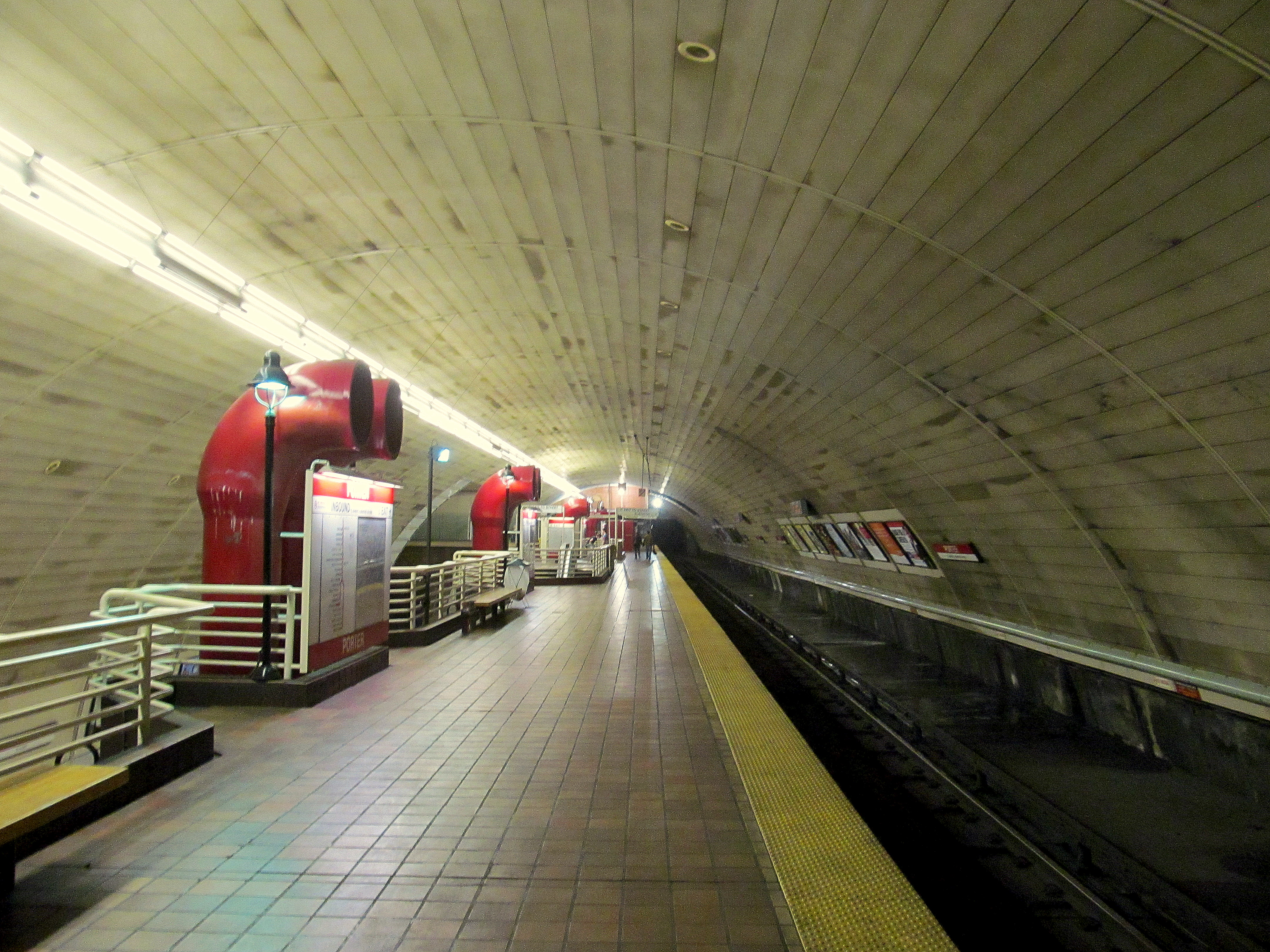 Upper level (inbound) platform at Porter Square